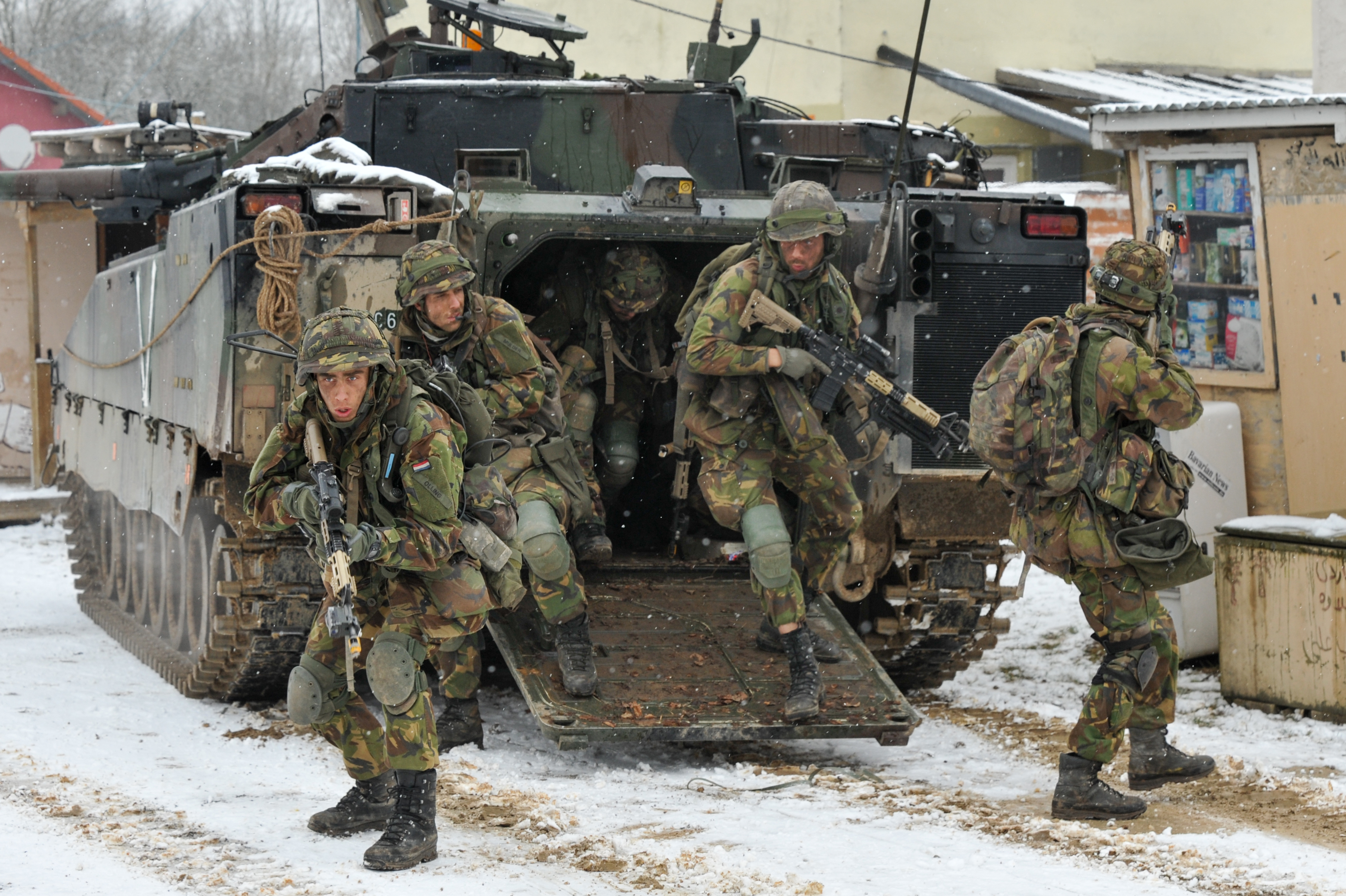 Dutch soldiers dismount a CV 90 combat vehicle to conduct an assault in an urban environment during Exercise Allied Spirit I at the U.S. Army Joint Multinational Readiness Center's Hohenfels Training Area, Germany, Jan. 20, 2015. Exercise Allied Spirit includes more than 2,000 participants from Canada, Hungary, Netherlands, United Kingdom and the United States. Allied Spirit is exercising tactical interoperability and testing secure communications among alliance members. (U.S. Army photo by Visual Information Specialist Markus Rauchenberger/released)